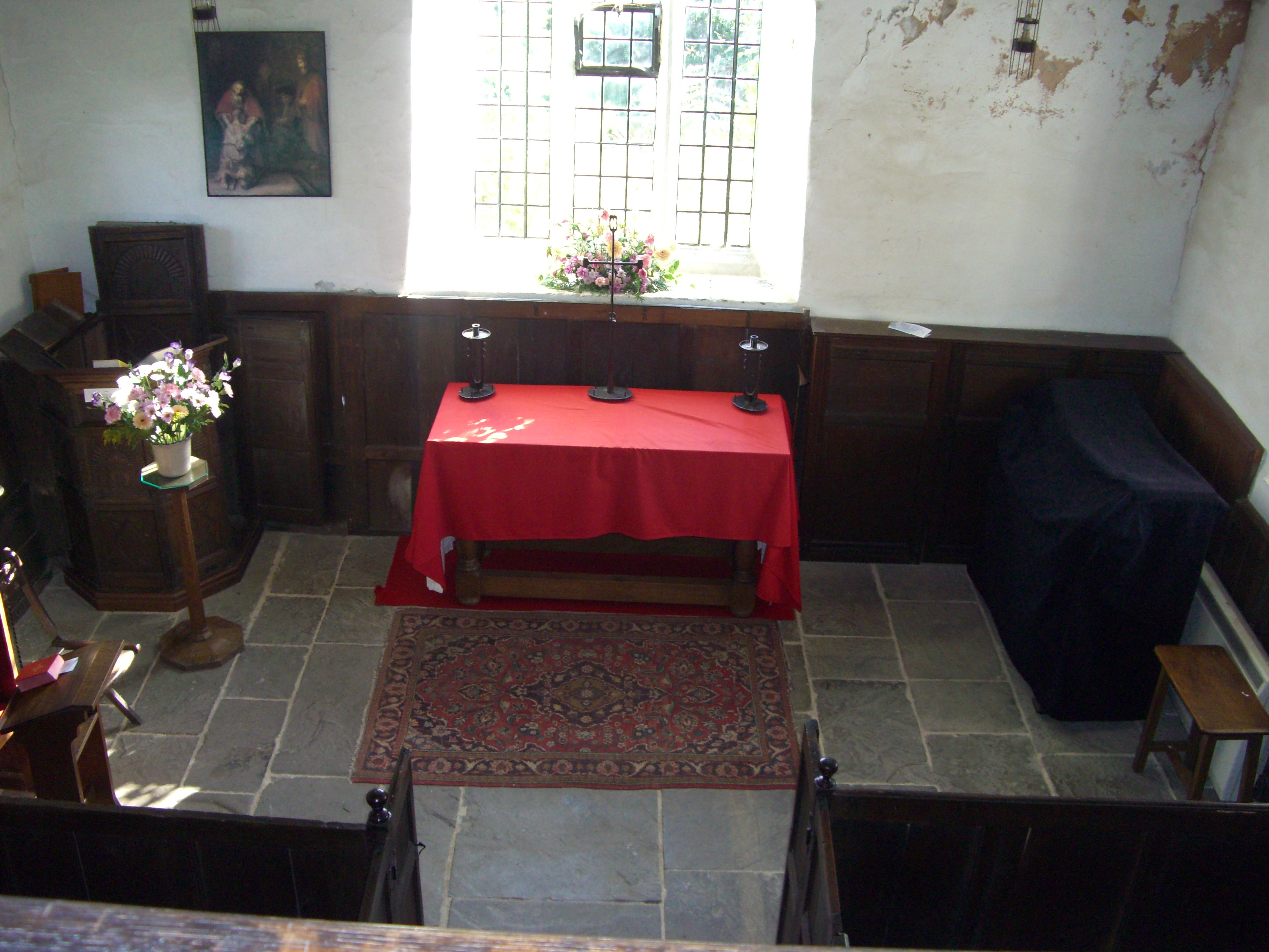 The interior of St James' Church, Midhopestones near Sheffield, South Yorkshire, England.